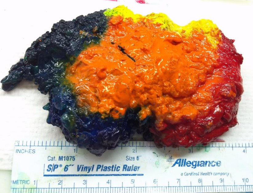 This excisional biopsy was was done for a palpable mass of the left breast. The lesion was considered highly suspicious for malignancy on mammography. Several years previously, the patient had invasive carcinoma of the right breast, with two positive right axillary nodes. At that time, she has an extended simple mastectomy on the right, followed by reconstruction of the right breast and a reduction mammoplasty on the left. She had normal mammograms through 2010, and the abnormality in the left breast suddenly appeared in her 2011 mammogram. Orientation was provided to the pathologist by the surgeon in the operating room. The margins are color-coded: Red-left (lateral) Green-right (medial) Yellow-superior Blue-inferior Orange-anterior Black (not shown on this view)-posterior I took this photo immediately after inking the specimen. Then, I used a squirt bottle to cover the surface with acetone. This dries out the surface and reduces the amount of ink running that occurs when you cut into it. Keep in mind that acetone is volatile and flammable. Other fluids that can be used for the same purpose are Bouin fixative, glacial acetic acid, and white vinegar. Bouin fixative contains picric acid and is therefore a toxic and explosion hazard. On section, the palpable lesion corresponded to a poorly demarcated 1.1-cm hard mass surrounded by normal-appearing tissue. As it turned out, on microscopic examination, the mass was shown to be fat necrosis, perfectly benign. I guess we ended up wasting a lot of time marking the margins on a benign lesion, but unfortunately, it's not possible to tell if a mass is benign until you cut and process it for microscopic exam. Once you cut into it, it's not possible to accurately mark the margins. Pathological and histological images courtesy of Ed Uthman at flickr.